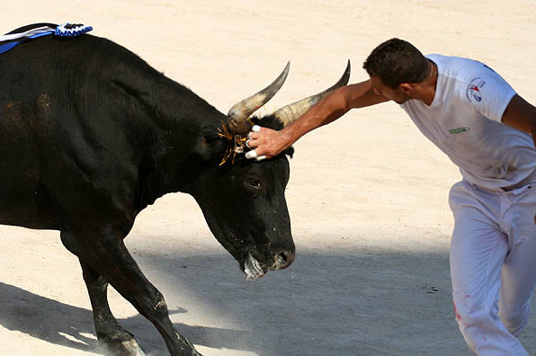 A bull and a raseteur at the 75th Cocarde d'Or, Arles, France, See Course camarguaise